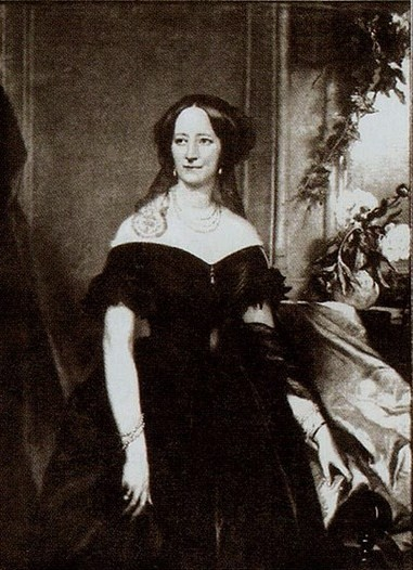 Cäcilie Julie Philippine Gräfin von Anrep-Elmpt (1812—1892)